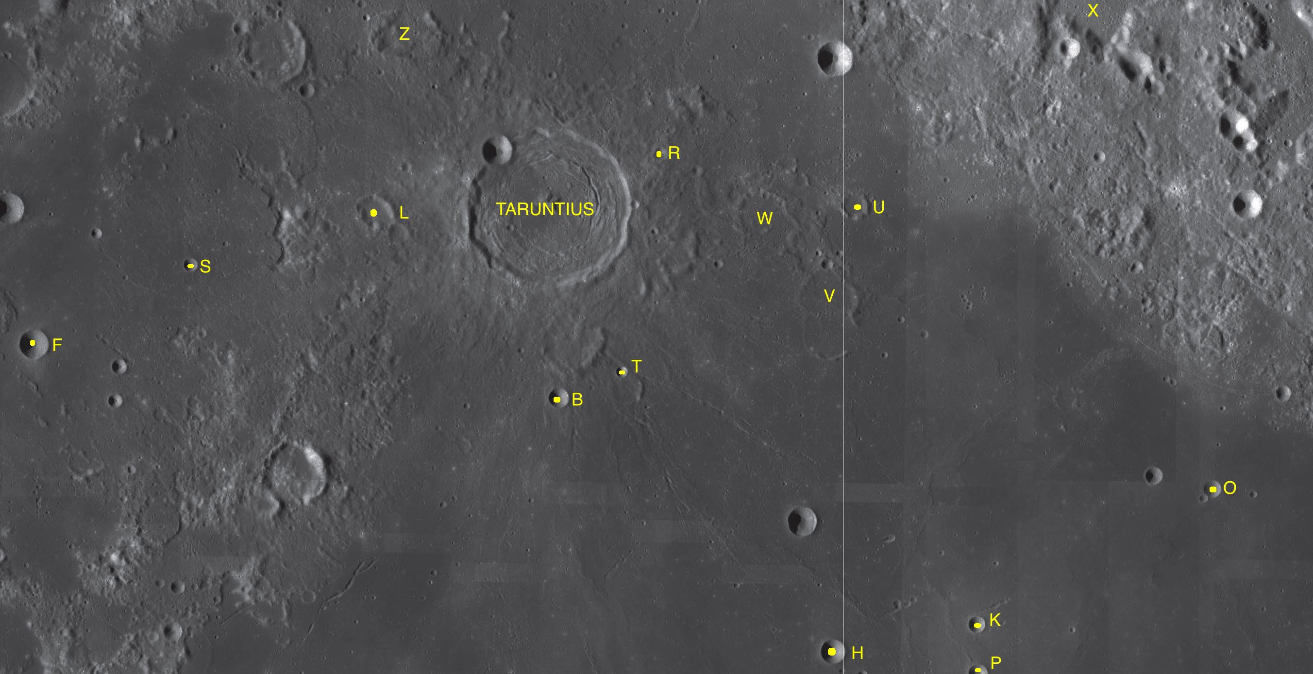 Parts of the charts LAC-61, LAC-62 used for the presentation.